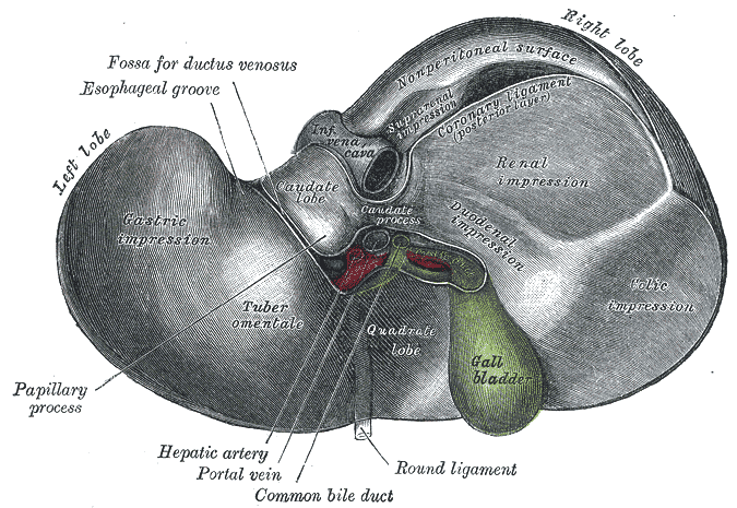 Inferior surface of the liver. (From model by His.)